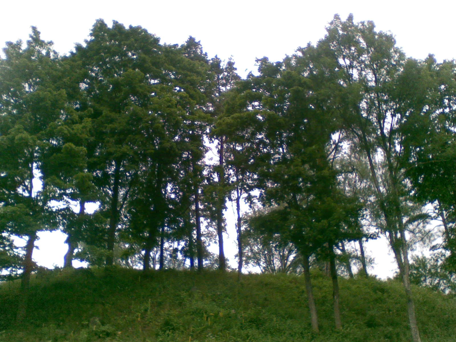 Aukštadvario piliakalnis nuo pietinio šlaito.